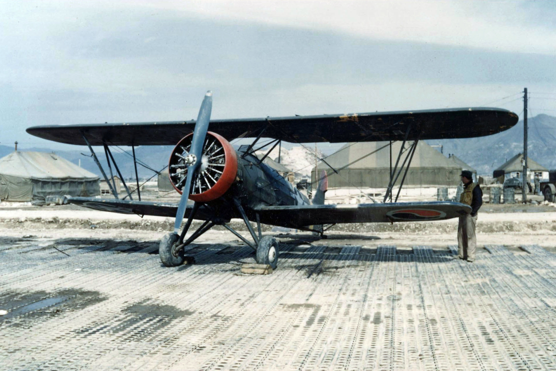 A former Japanese Tachikawa Ki-9 "Spruce" pictured at airfield K-1 (Pusan-West) in South Korea during 1951. Note that it is painted in South Korean markings.